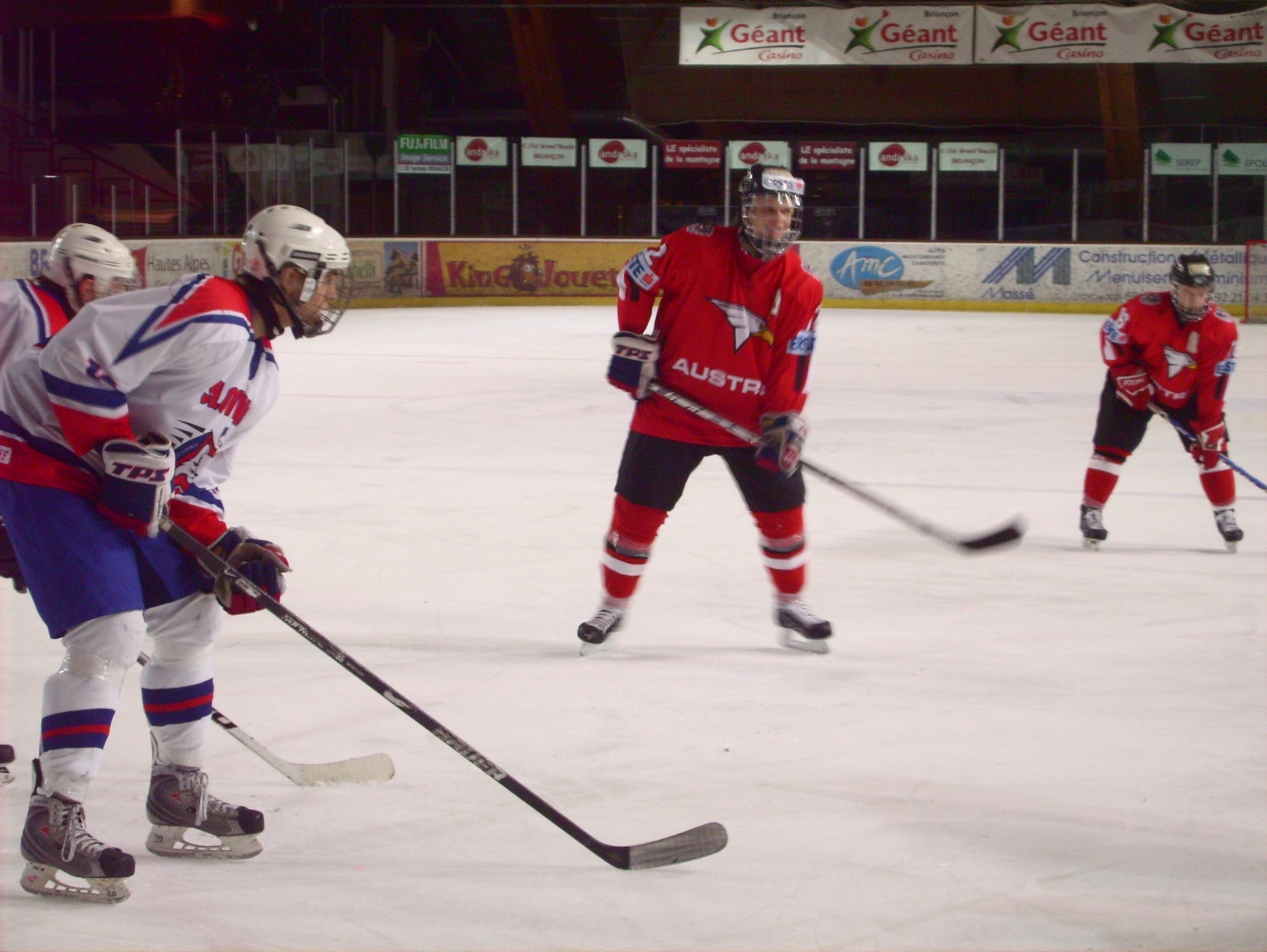 Kevin Puschnik, austrian ice hockey player. Austria U18 Vs Slovenia U18, friendly in Briançon tournament 2009.